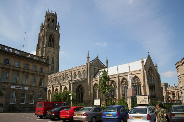 St.Botolph's church. From the market square